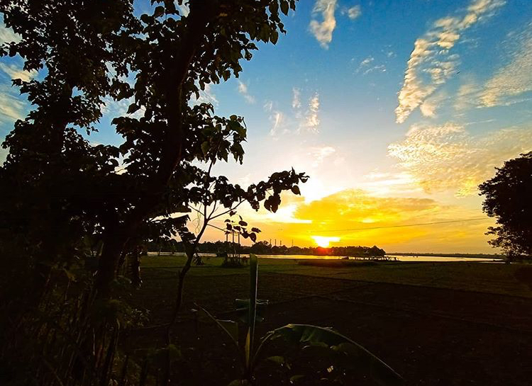 True love!